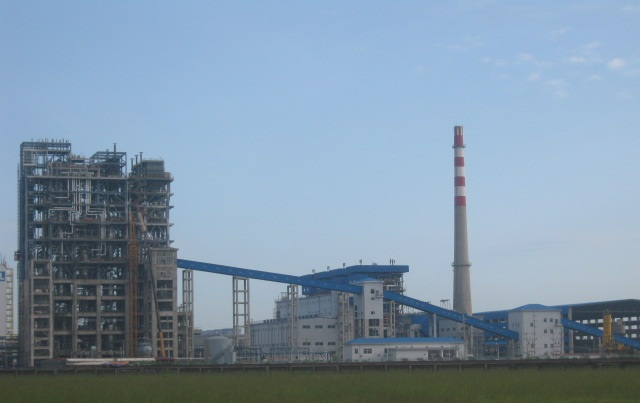 Ninh Binh Nitrogenous Plant Project - Khanh Phu Industrial Park, Ninh Binh